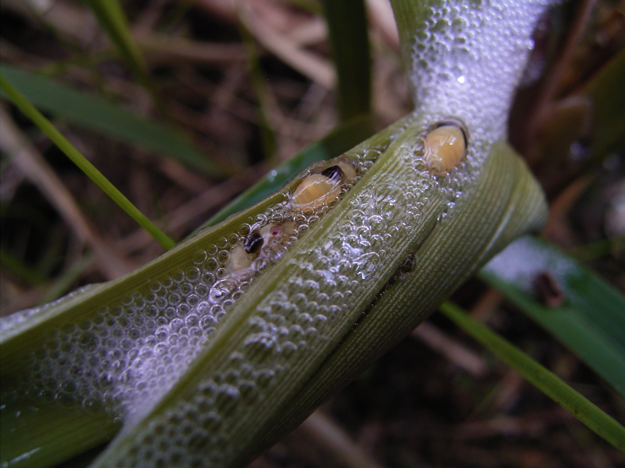 Nymphs of Aphrophora major (Germany)